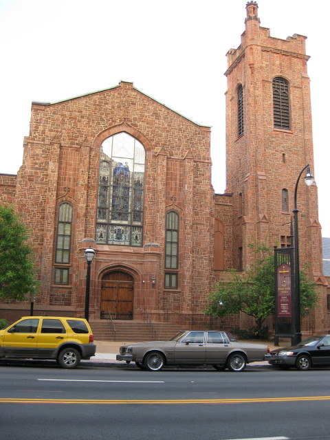 This is a picture of the Church from Peachtree St